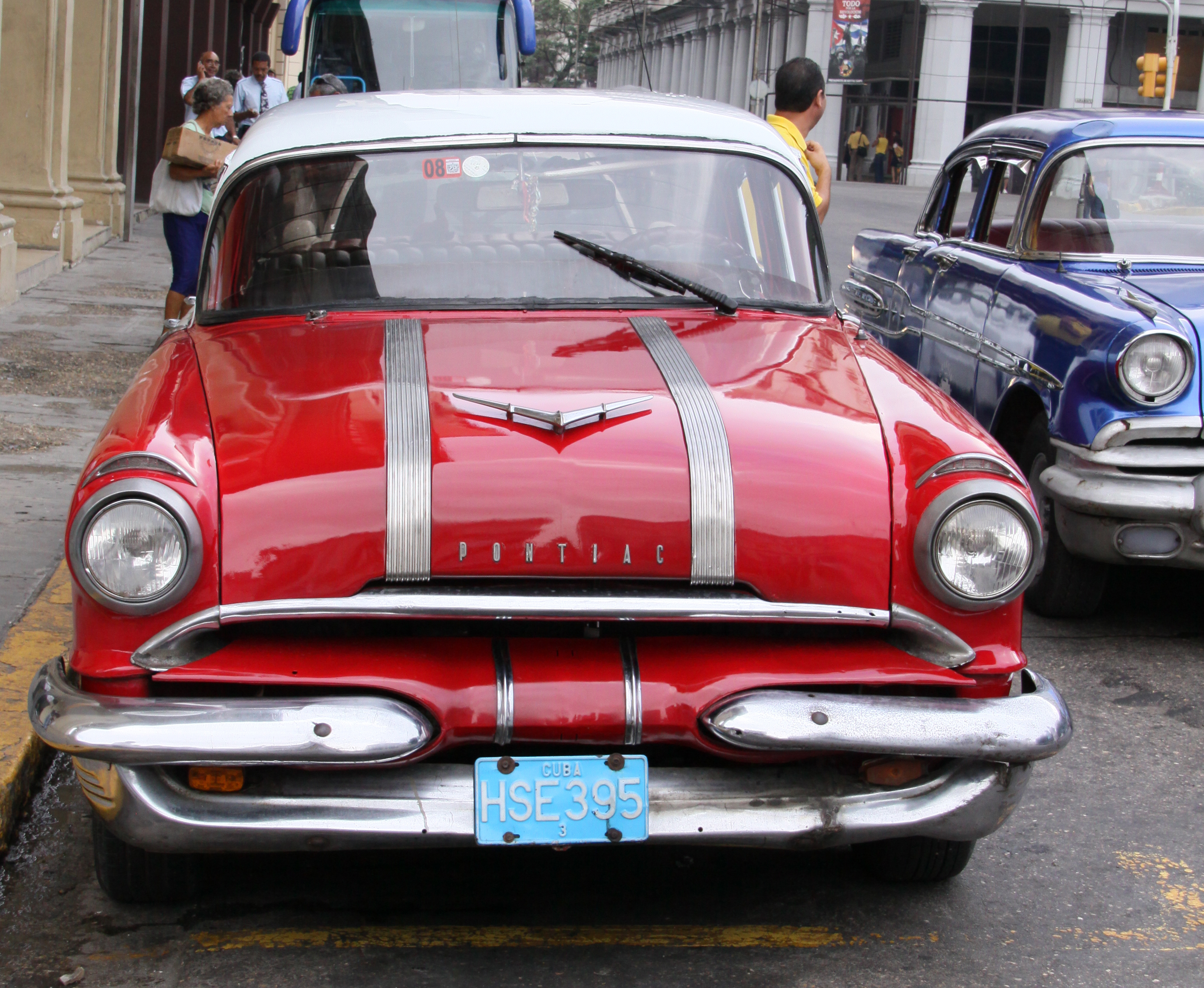 Pontiac Star Chief